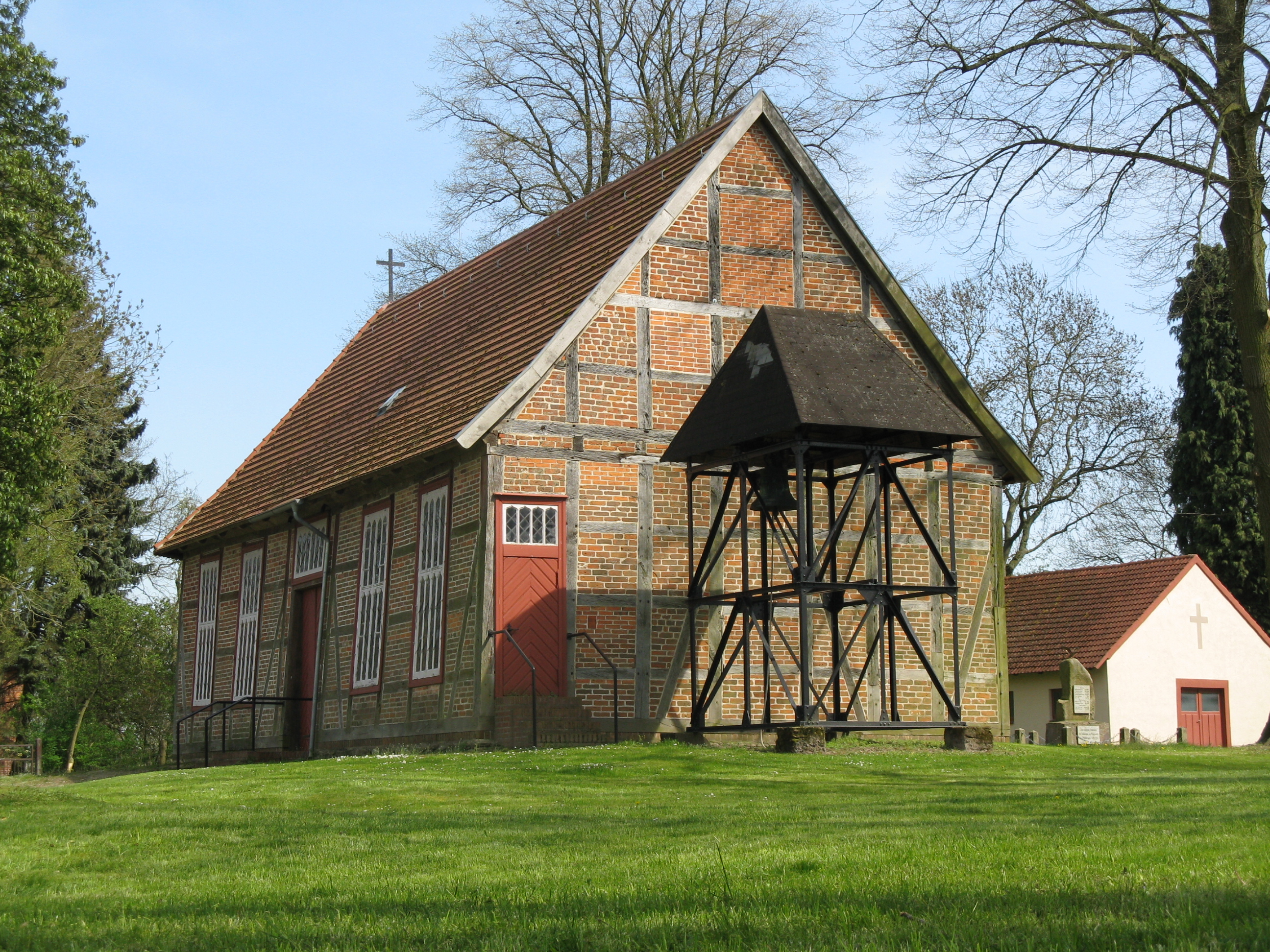 Church in Neese, district Ludwigslust-Parchim, Mecklenburg-Vorpommern, Germany